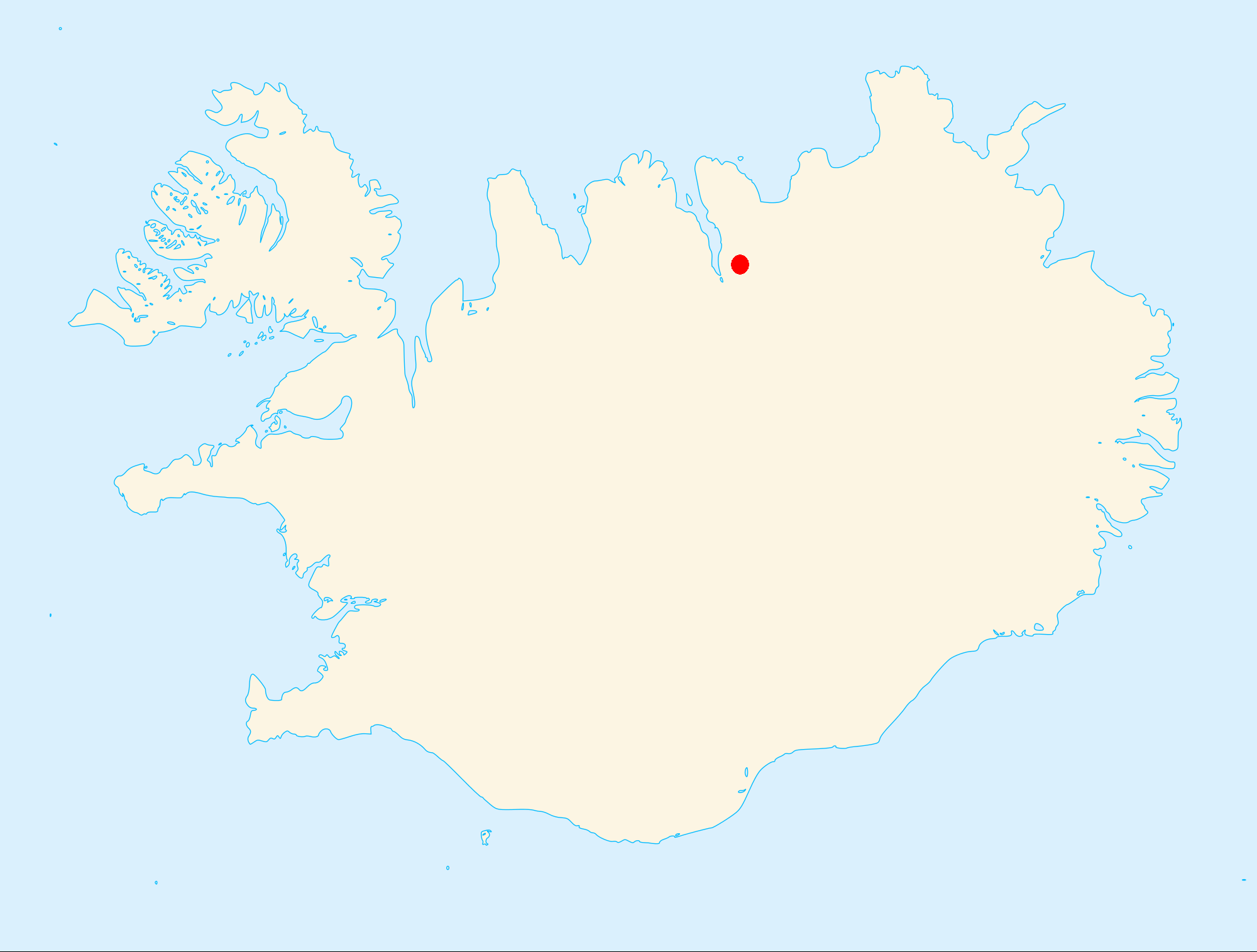 Location of Vaglaskógur within Iceland